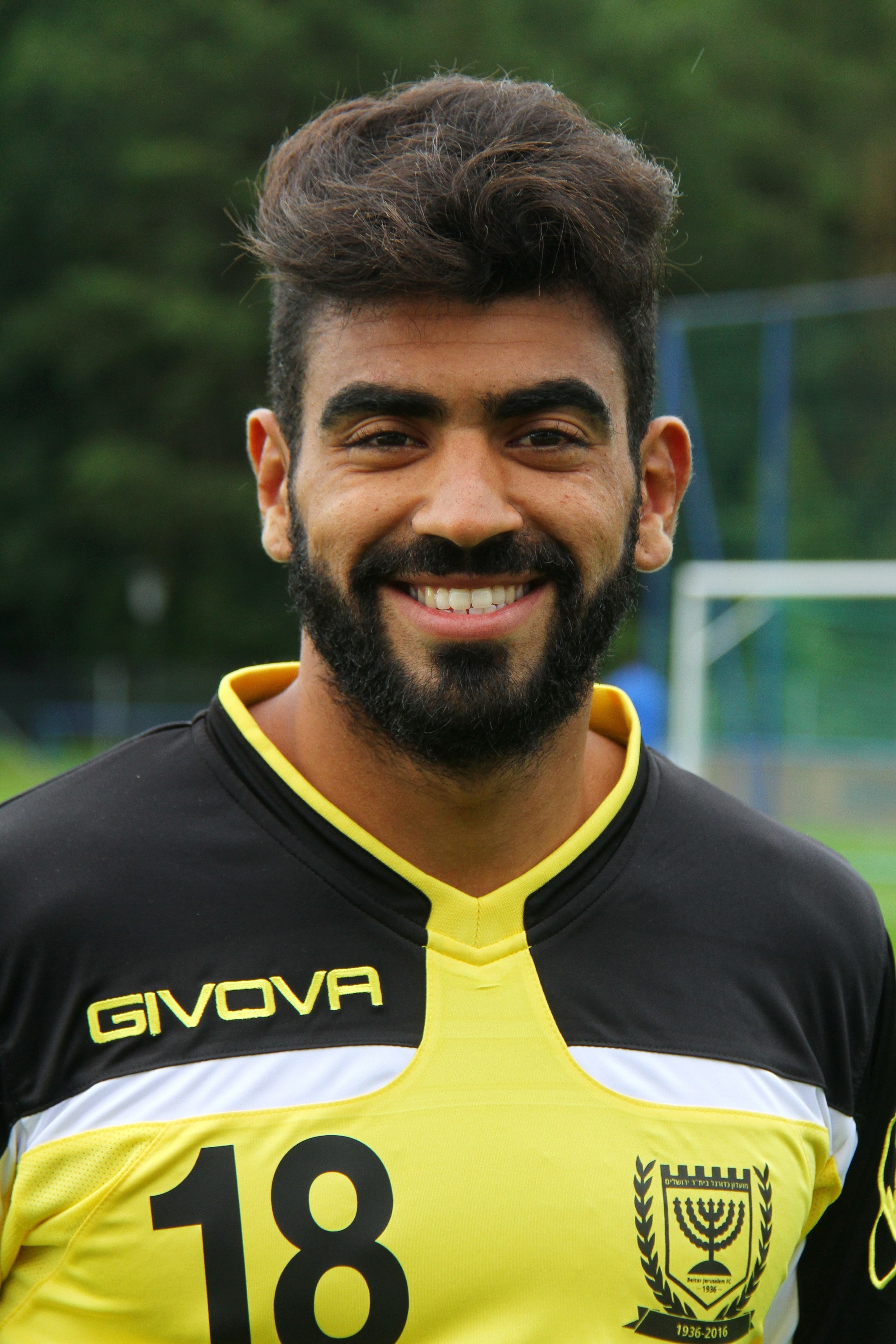 Friendly match between Beitar Jerusalem F.C. (yellow shirts) and MTK Budapest FC (blue shirts) at 2016-06-18 in Bad Erlach (Austria. – The photo shows Roei Zikri, Beitar Jerusalem F.C.